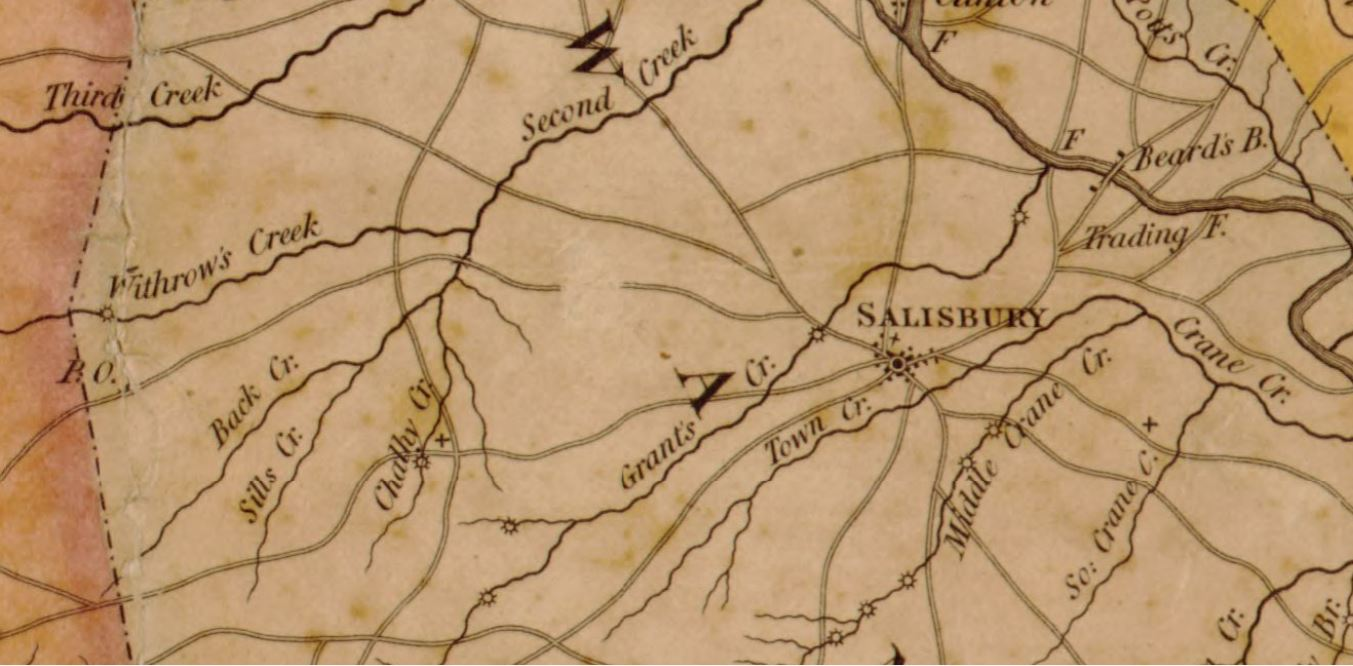 Portion of "a new map of North Carolina published in 1833 by Brazier, Robert H. B; Fayetteville, N.C. : Published under the patronage of the legislature by John Mac Rae ; Philadelphia : H.S. Tanner, 1833. Shows creeks, streams, towns and Thyatira Presbyterian Church on Cathey's Creek